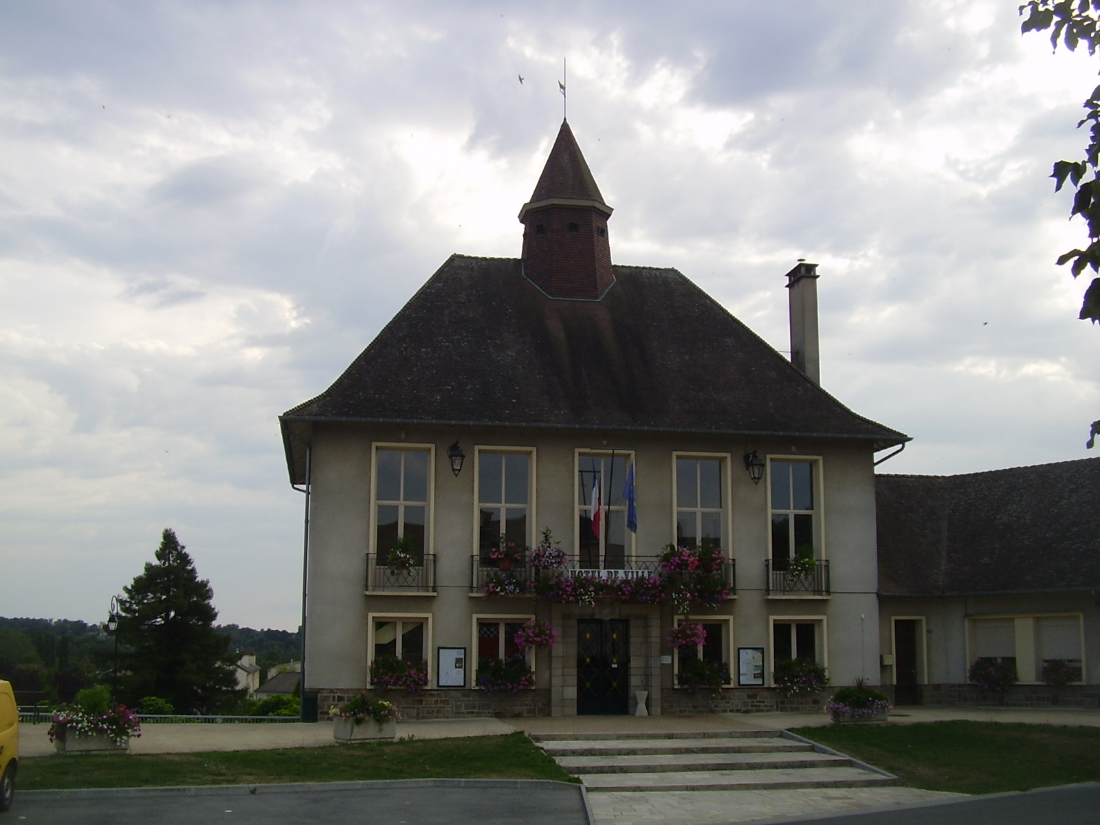 Town hall of Magnac-Laval (Haute-Vienne, France).